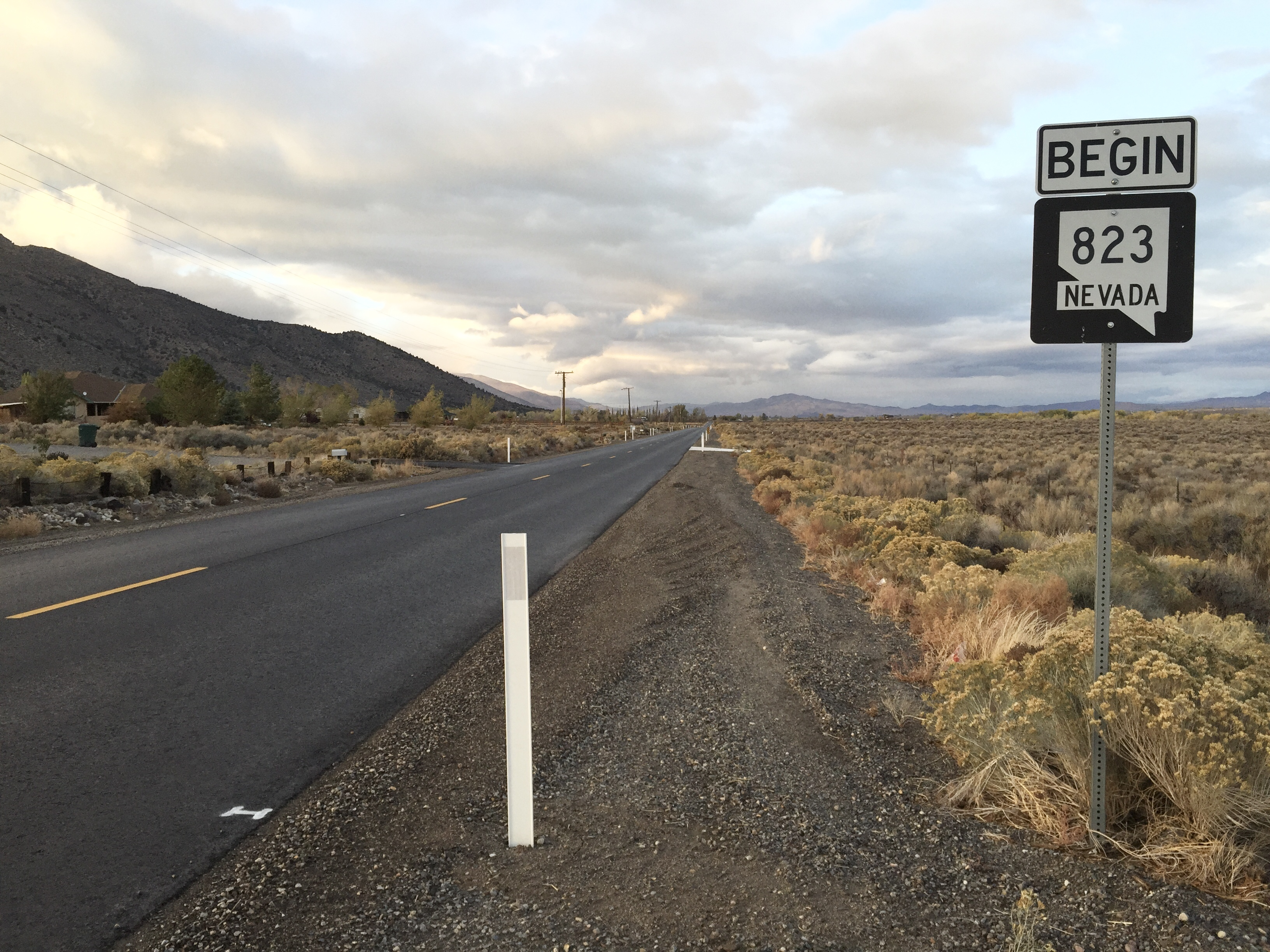 View north from the south end of Nevada State Route 823 (Lower Colony Road) in Lyon County, Nevada